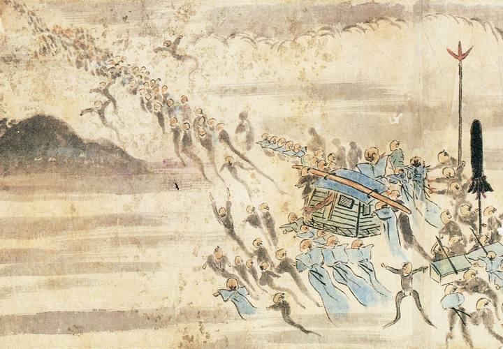 The ending of Tōtei bukkairoku (稲亭物怪録)